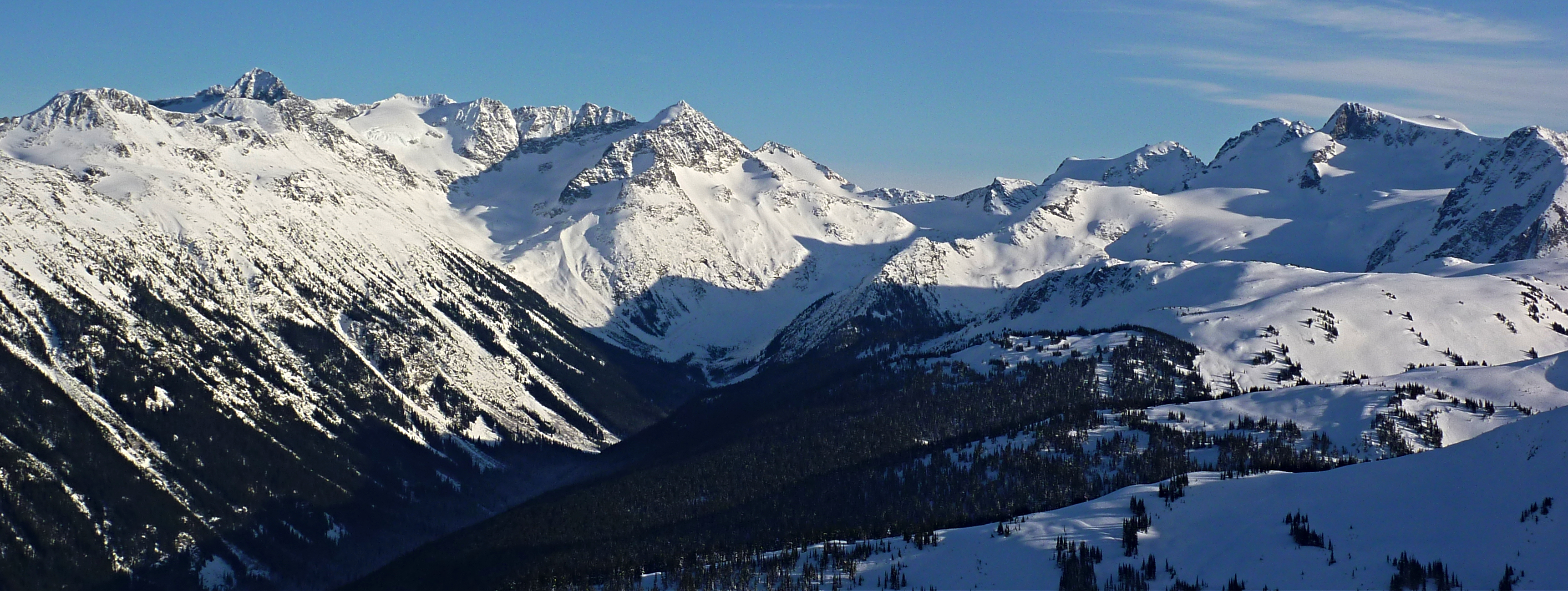 Tremor Mountain, Mount Macbeth, Overlord Mountain. Viewed from Whistler Mountain ski area.